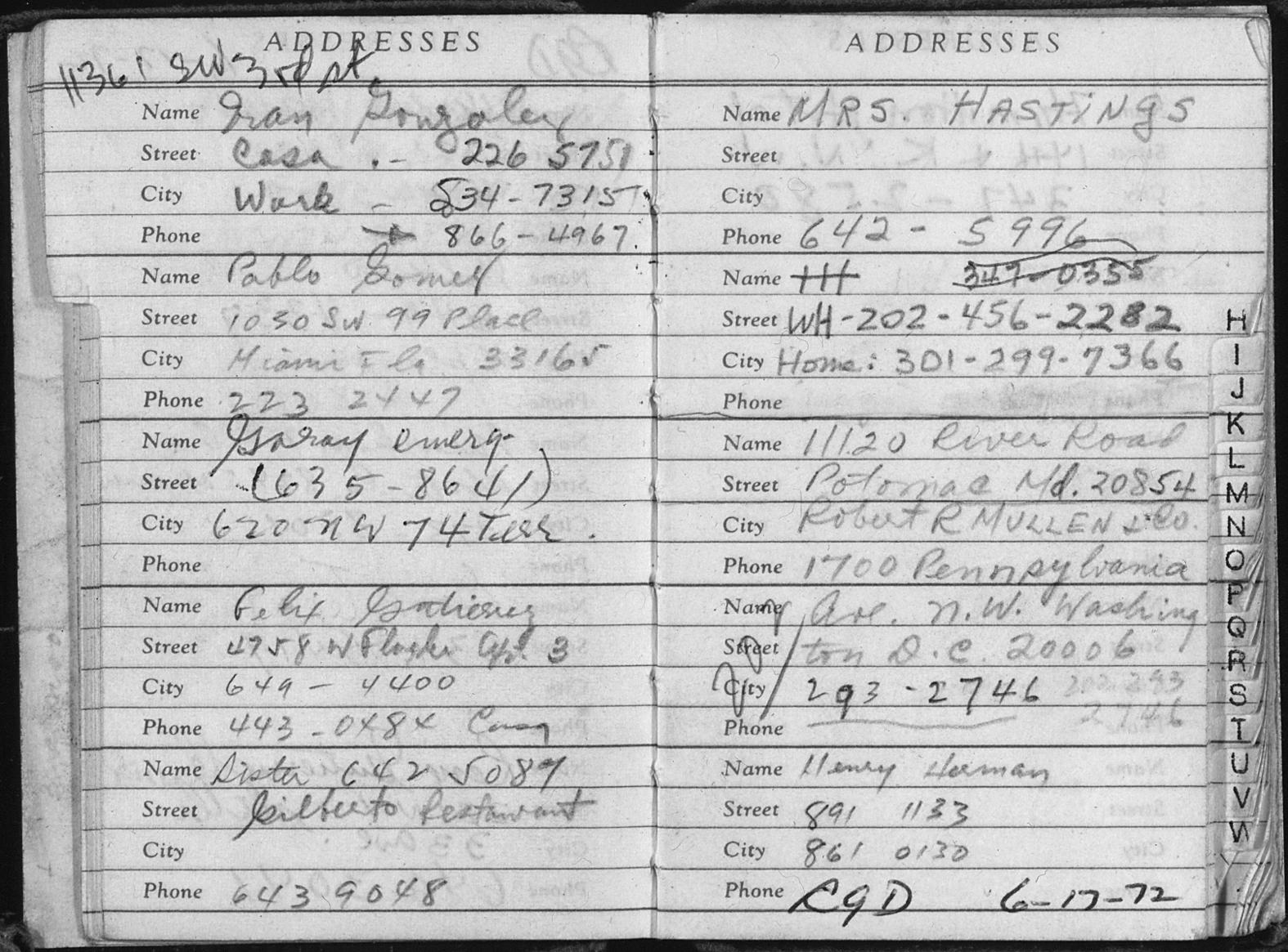 Scope and content: This address book lists "HH," initials for Howard Hunt, a White House consultant. After confirming that the telephone number listed here was indeed at the White House, the FBI linked the Watergate break-in to the White House during the investigation's earliest hours. General notes: Exhibit History: "American Originals," December 1997 - December 1998, National Archives Rotunda, Washington, DC, Exhibit No. 624.0217. "Recent America," June 1984 - December 1985, National Archives Rotunda, Washington, DC, Exhibit No. 533.0374.